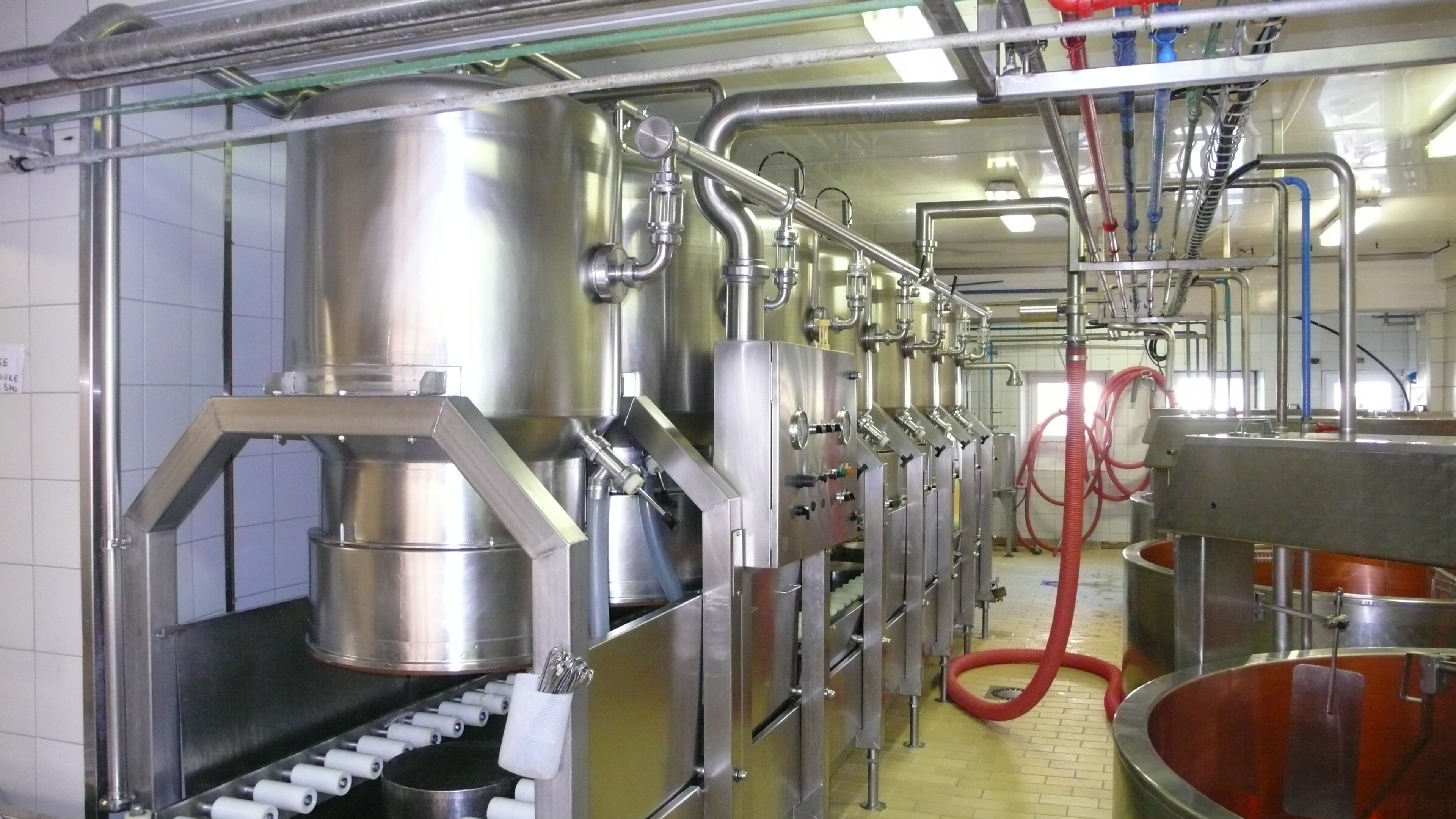 Inside the dairy of Fontain .